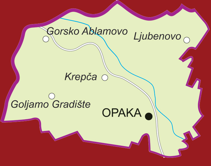 Map of Opaka Municipality, Bulgaria